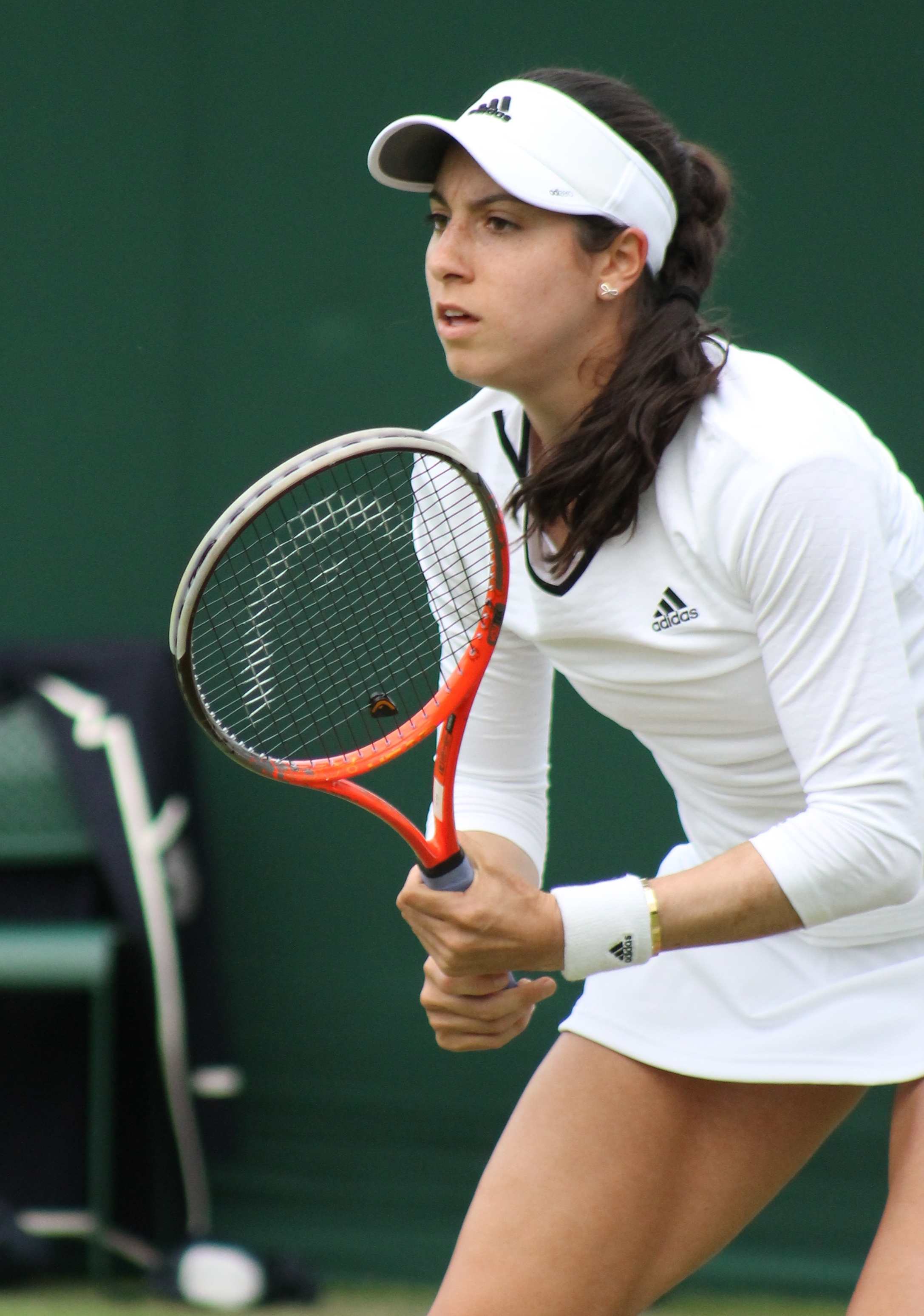 Christina McHale at 2013 Wimbledon